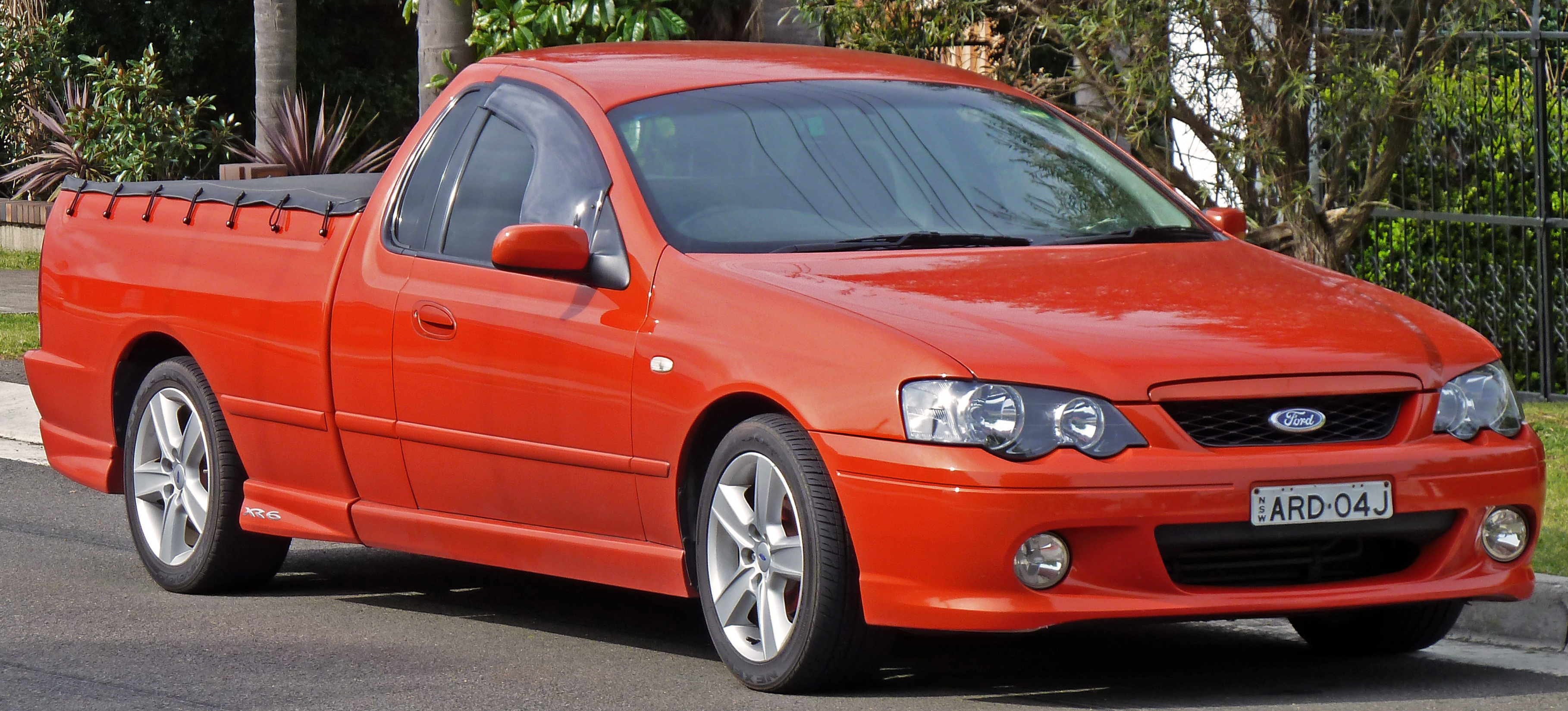 2004 Ford Falcon (BA) XR6 utility. Photographed in Taren Point, New South Wales, Australia.